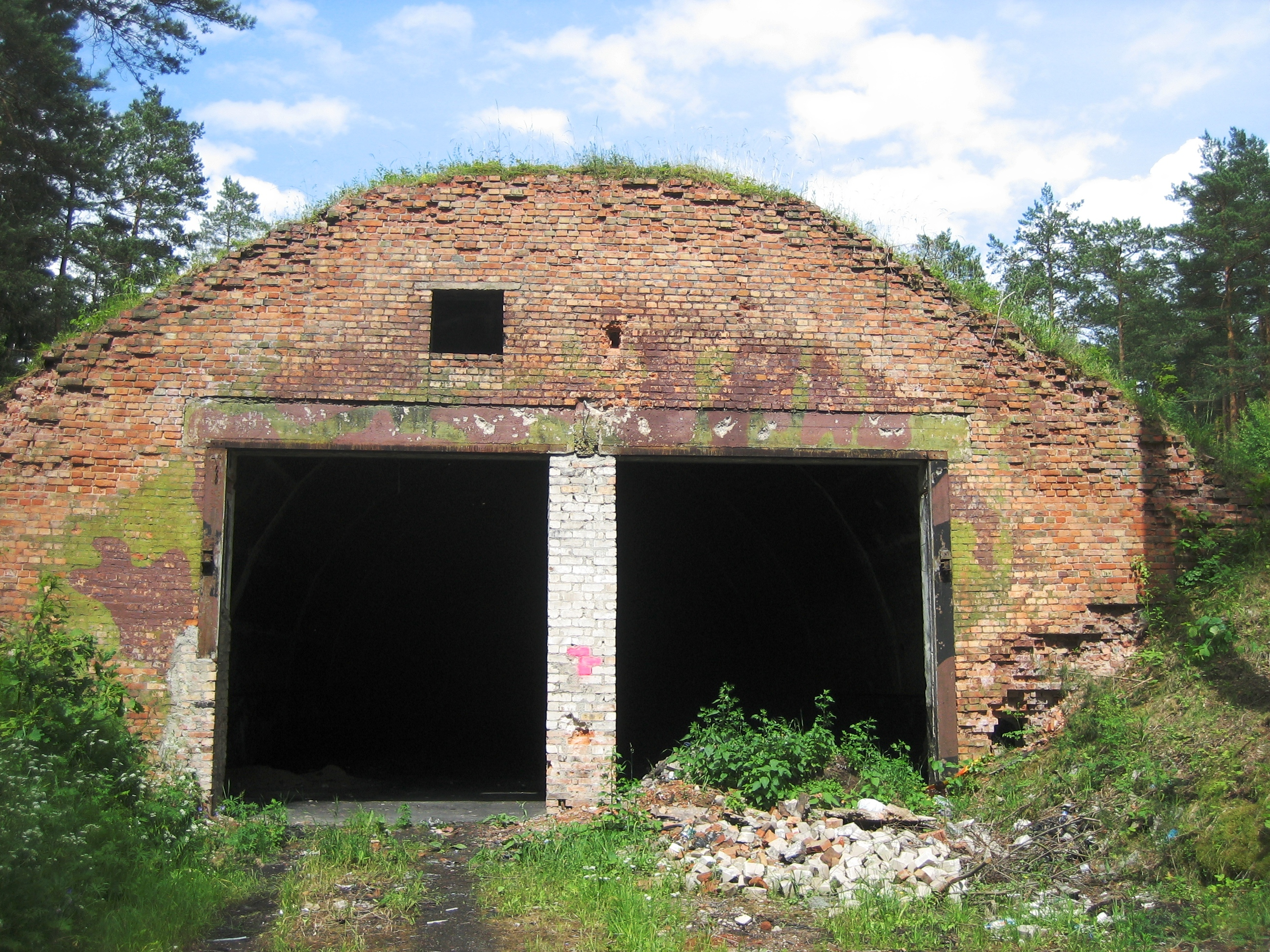 Past rocket base in Kopustėliai, Lithuania